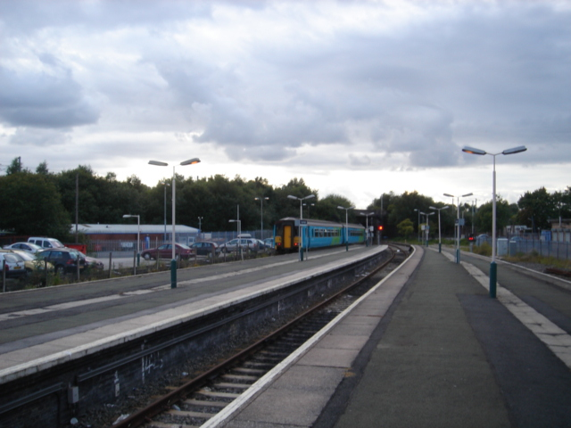 Wigan Wallgate railway station looking towards Manchester.